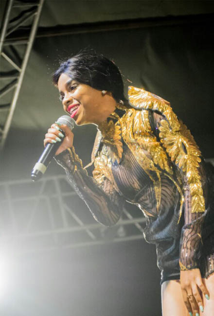 Nandy on stage in Dodoma, Tanzania on the 4th of November 2017 during the Fiesta concert.